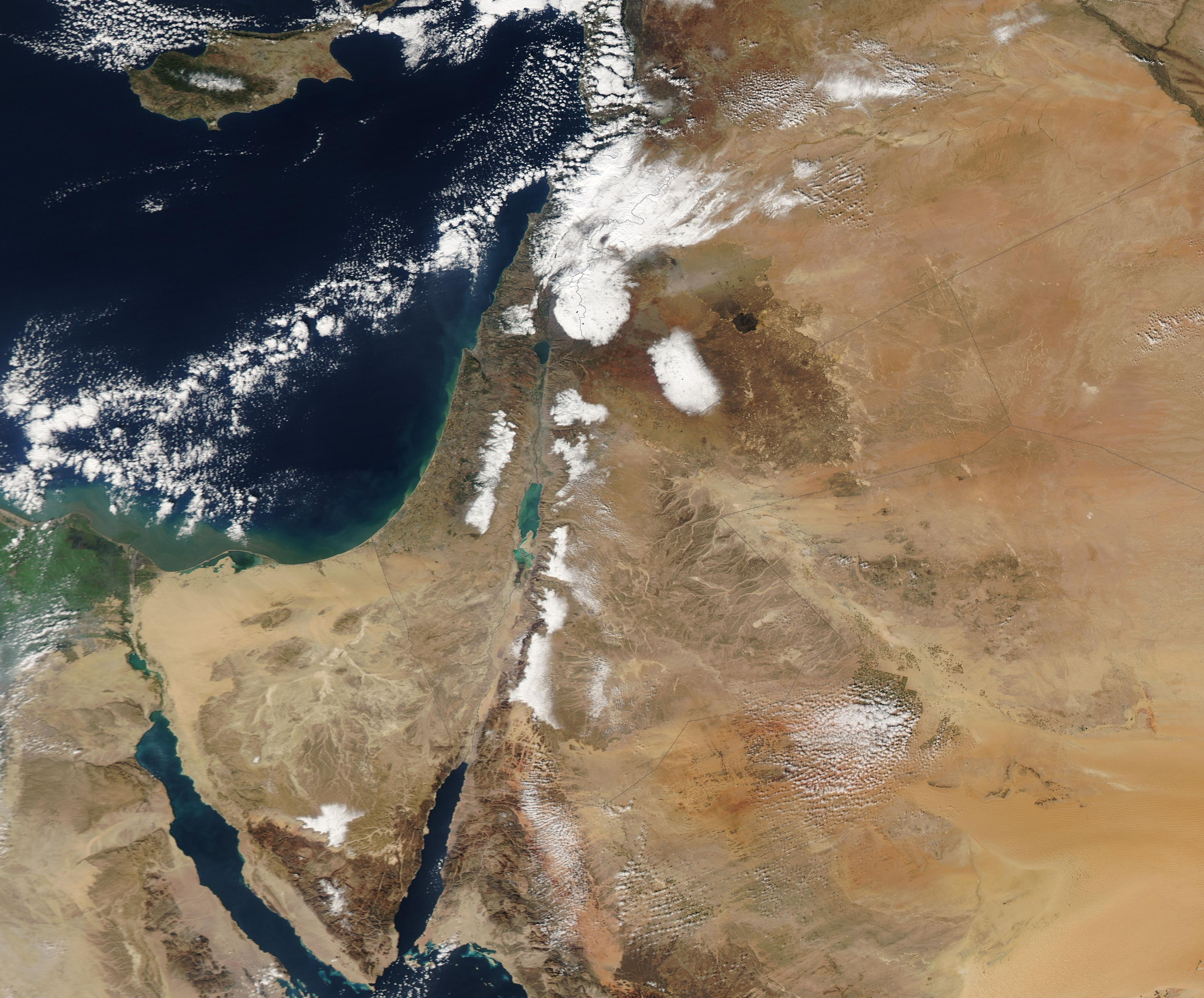 Sattelite image of snow in the Middle East, 15.12.2013.